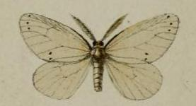 ProcZoolSocLond1896PLATE43 text Pirgula atrinotata